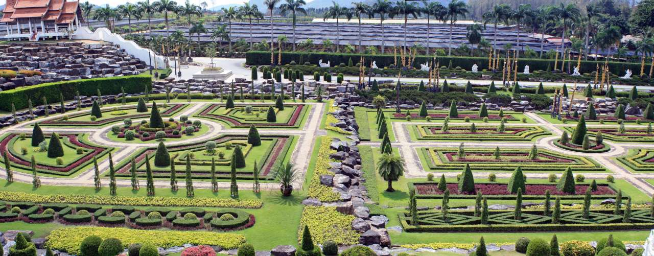 Nong Nooch botanical garden, French garden, Thailand